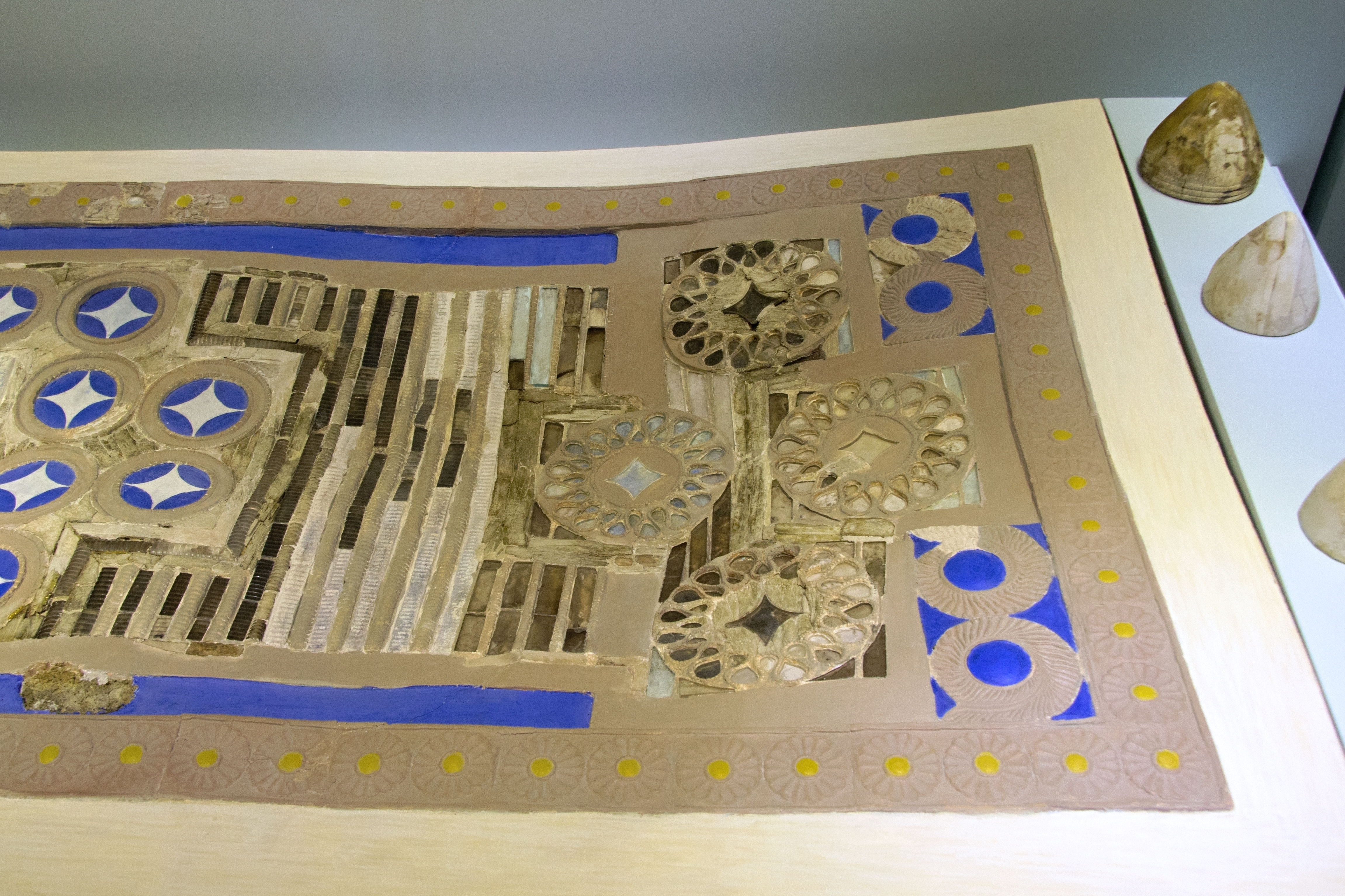 The Draughtboard. A board game inlaid with ivory, blue glass paste and rock crystal, plated with gold and silver. For large, conical ivory gaming-pieces correspond to circular areas of the Draughtboard. Similar, simpler objects have been found in Egypt and the East. Palace of Knossos, 1700-1450 BC. Archaeological Museum of Heraklion.